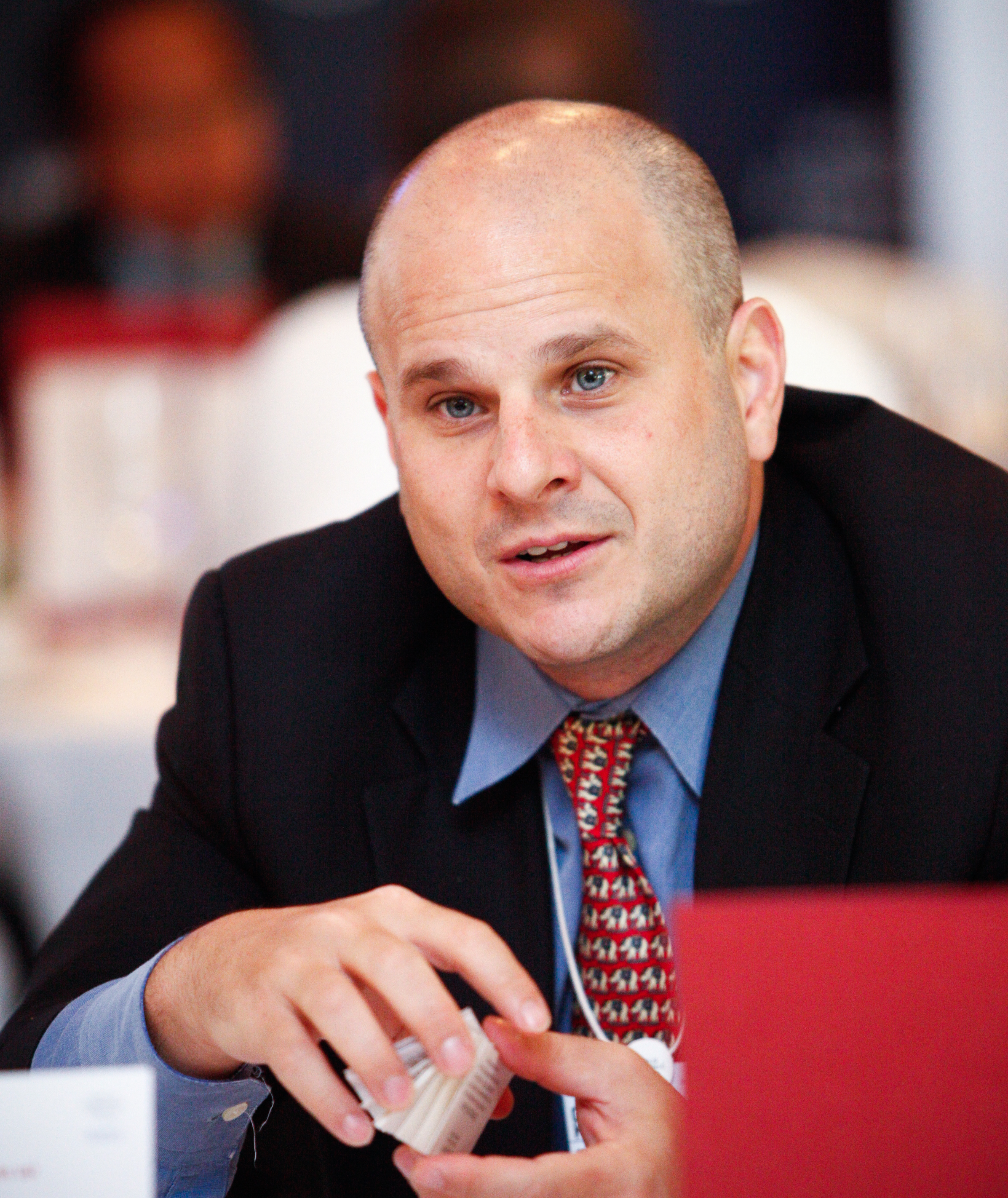 JAKARTA/INDONESIA, 12JUN11 - Dean Karlan, Professor of Economics, Yale University, USA, captured during Disrupted Aspirations: Closing the Income Gap at the World Economic Forum on East Asia in Jakarta, Indonesia, June 12, 2011. Copyright World Economic Forum ( by Sikarin Thanachaiary